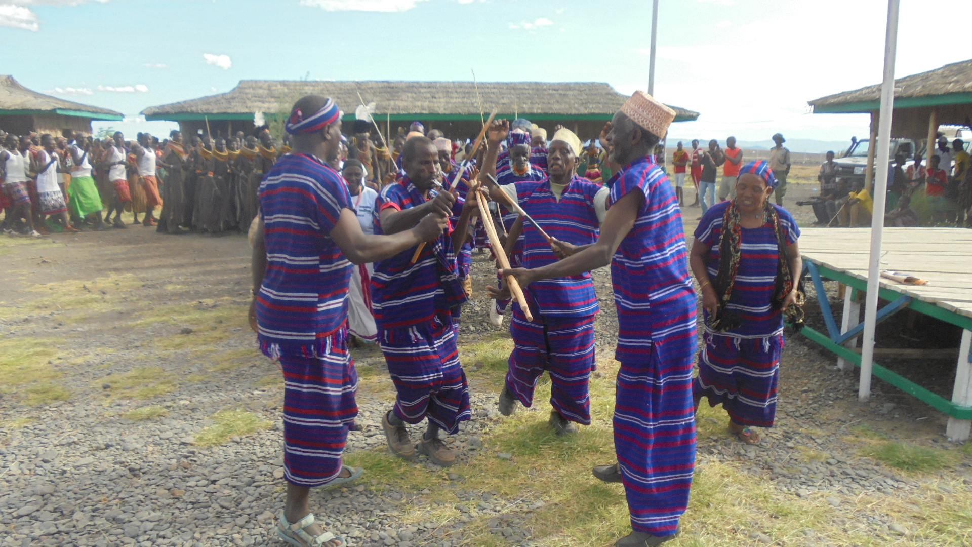 Gabbra Community men doing a jig during a cultural festival in Marsabit County in 2017. This is an image of "African people at work" from Kenya